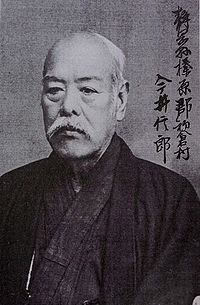 Imai Nobuo